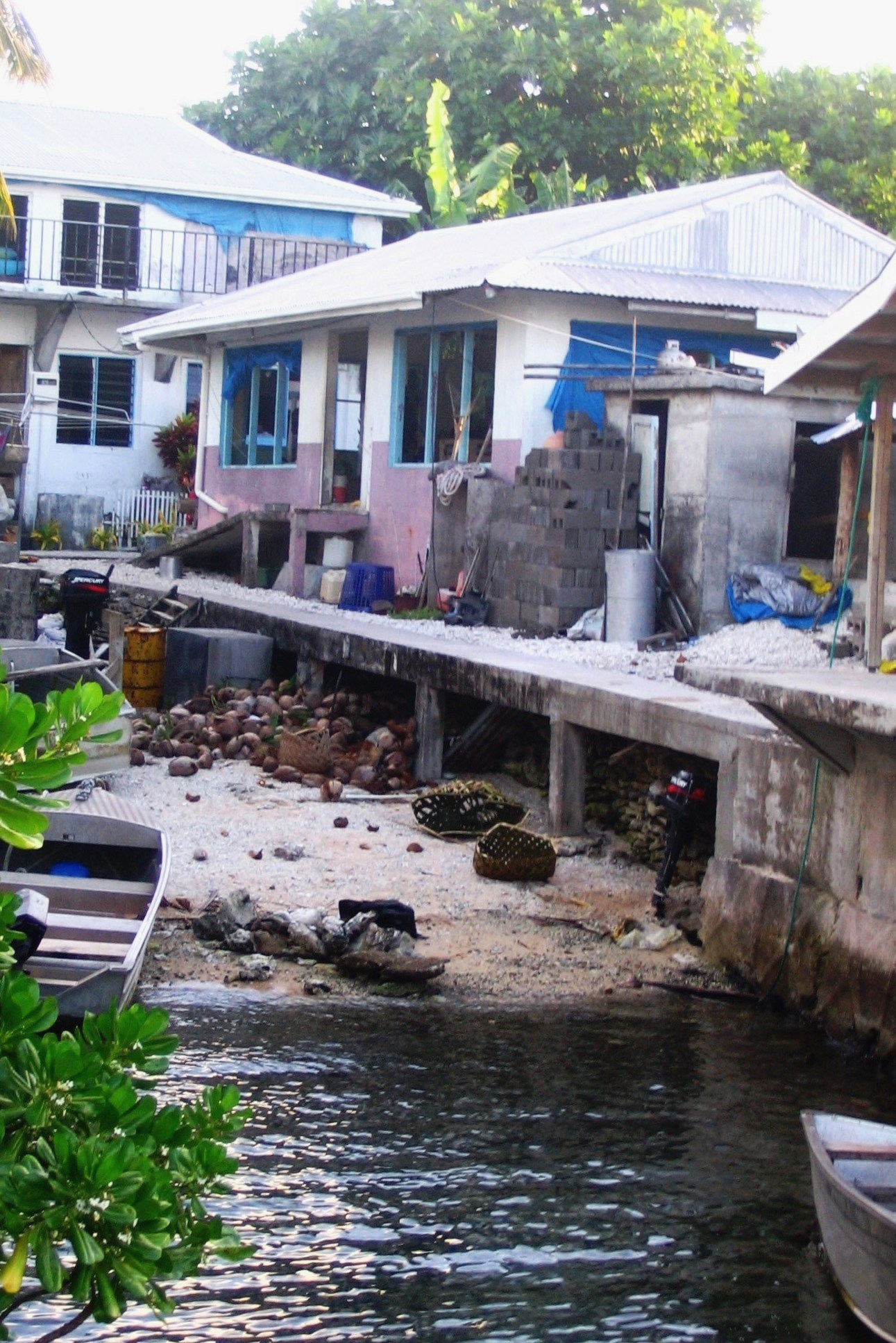 Housing on Fakaofo atoll, Tokelau, 2007. Tokelau’s low-lying atolls are susceptible to rising sea levels. Photo: New Zealand Ministry of Foreign Affairs and Trade